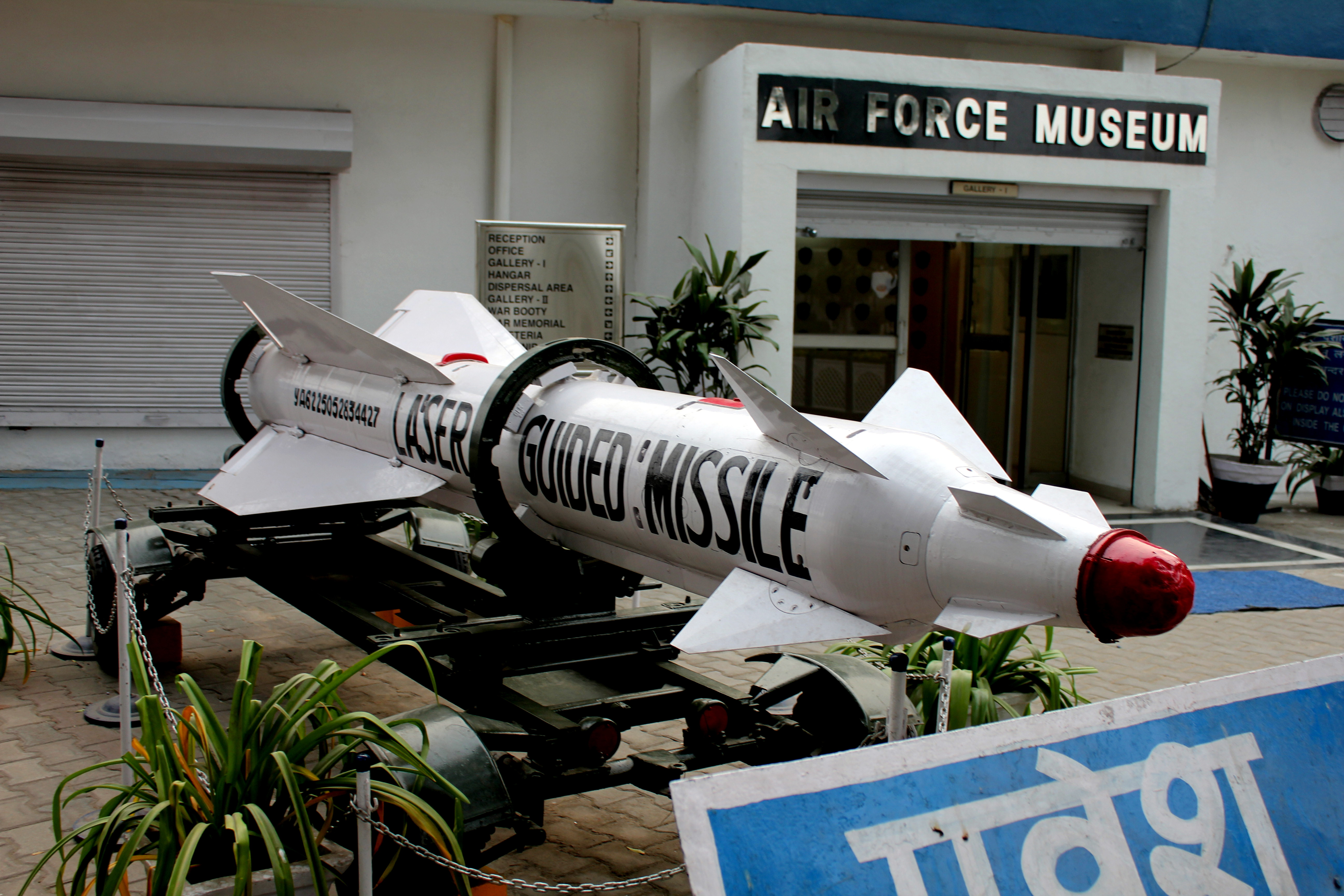 Entrance to Air Force Museum, Palam, New Delhi(In the background) with a Laser Guided missile